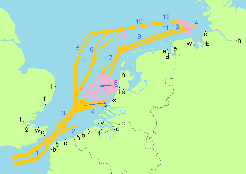 Map of the North Sea with roughly the current Traffic Separation Schemes